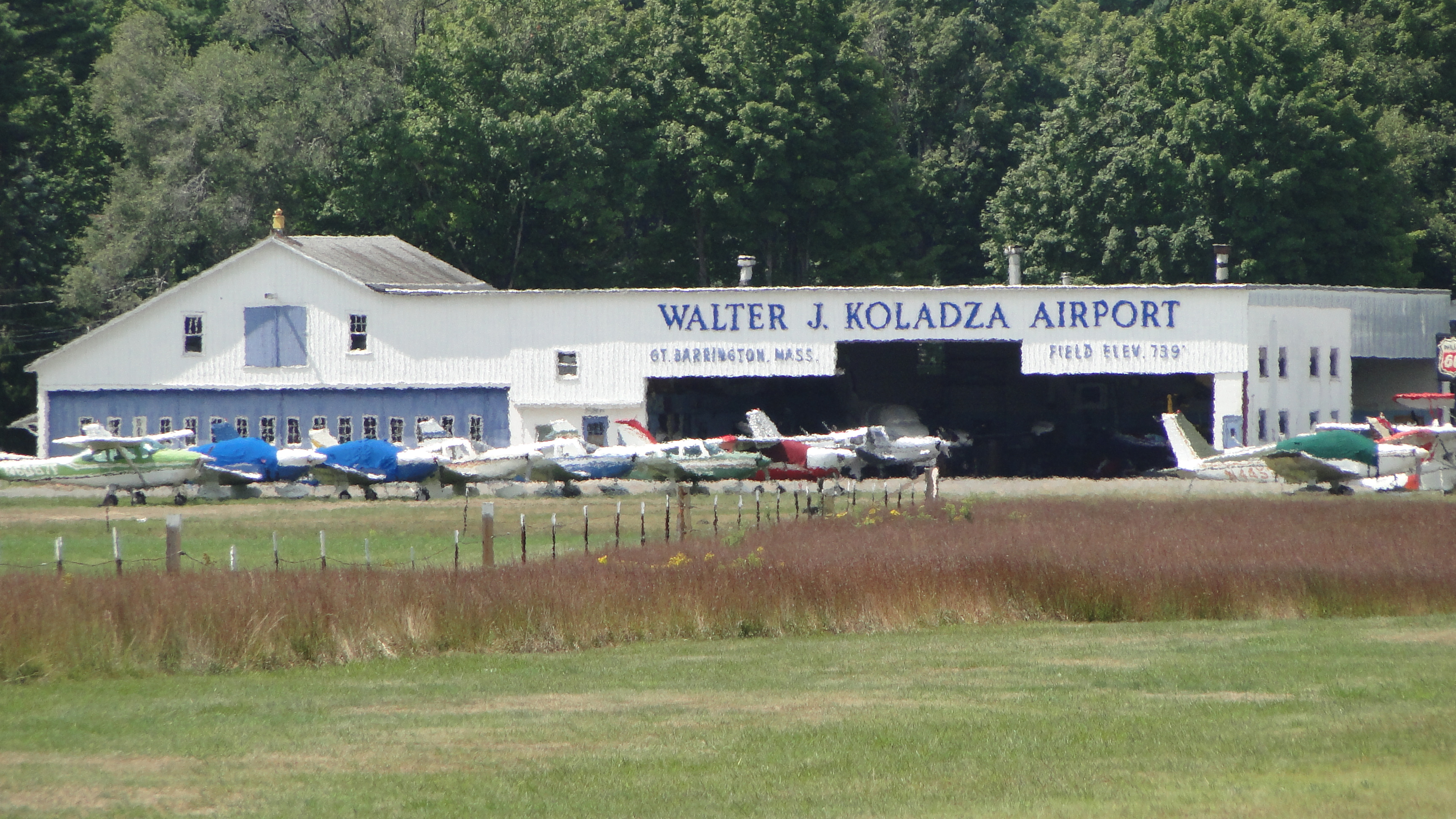 Walter J. Koladza Airport in Great Barrington, MA (Low Quality)